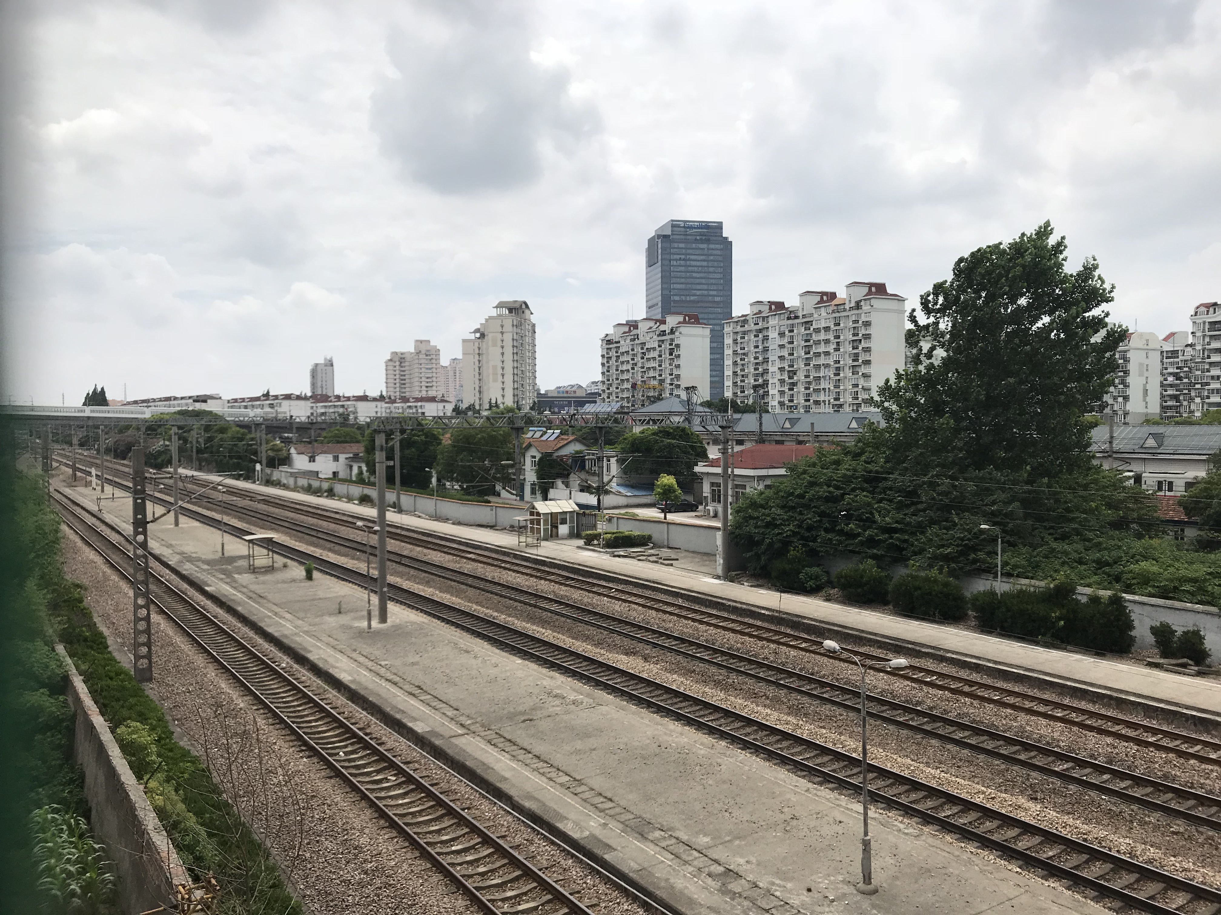 201806 Xinzhuang Railway Station. Taken on the Temporary Flyover.